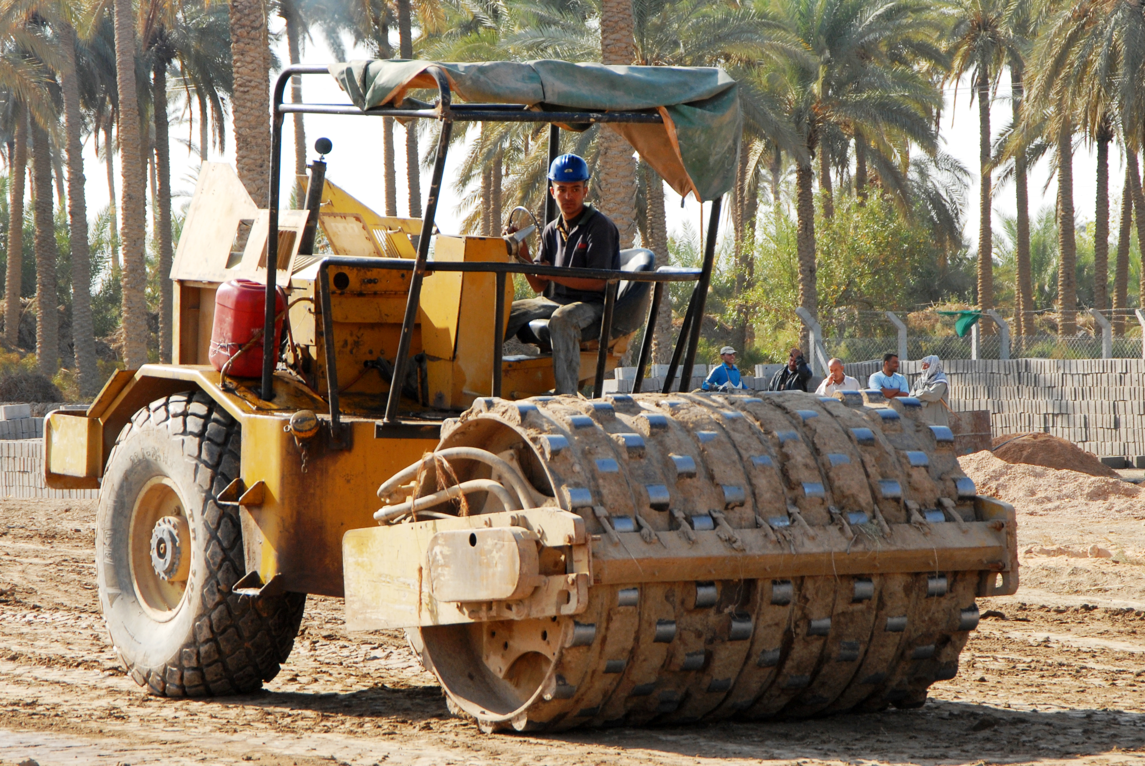 An Iraqi worker operates a road roller while compacting the soil prior to paving at the site of a new road being constructed in Hillah, Iraq, Nov. 26, 2008.